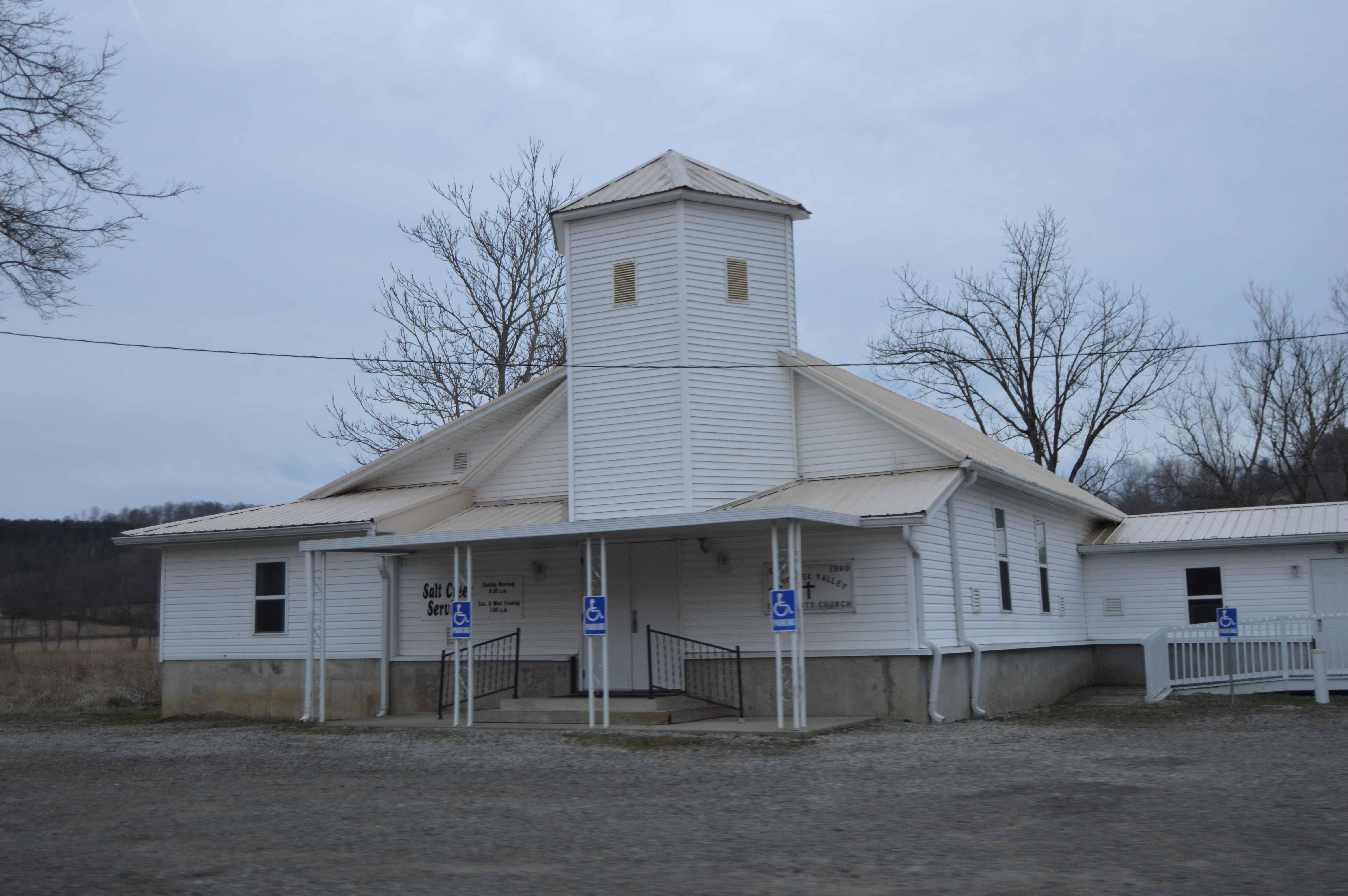 Front and northern side of the Salt Creek Valley Community Church, located at 19753 State Route 56 southeast of Laurelville in Salt Creek Township, Hocking County, Ohio, United States.